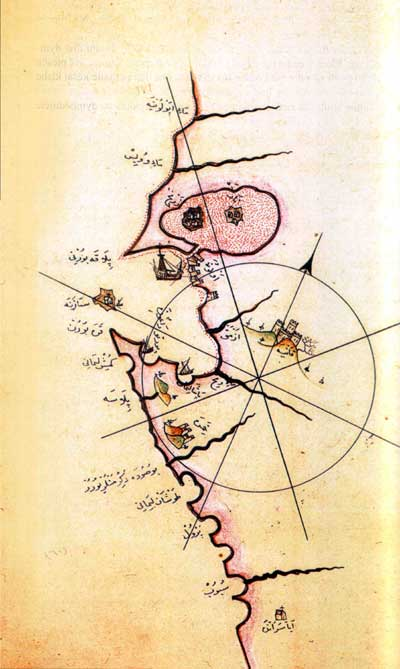 Piri Re'is map of the coast of Vlora